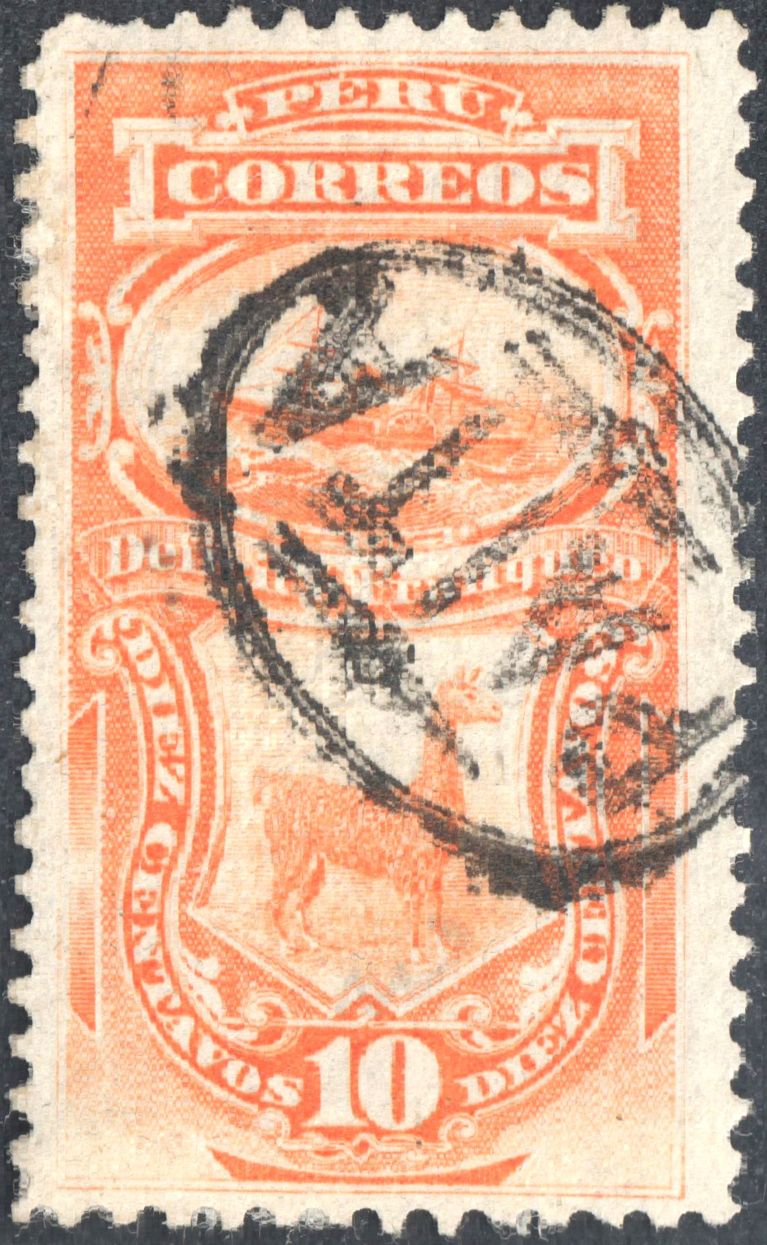 Peru Paita ScJ3 1874-79 issue overprinted 'PAITA'. Not mentioned in Scott. Scott lists similar Paita handstamps that date from 1884.